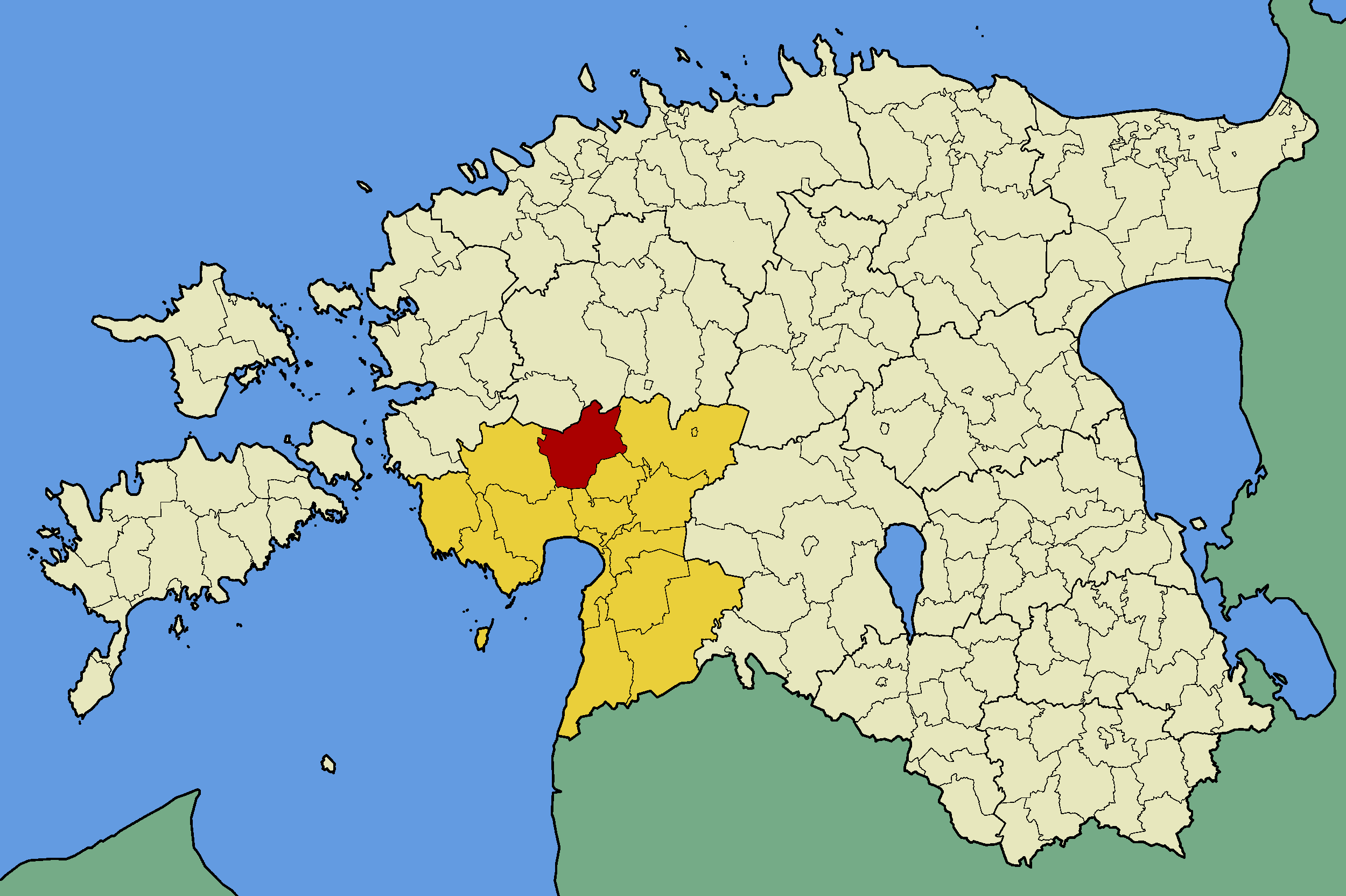 Map of Estonia with borders of municipalities (parishes). Pärnu county and Halinga municipality emphasized.